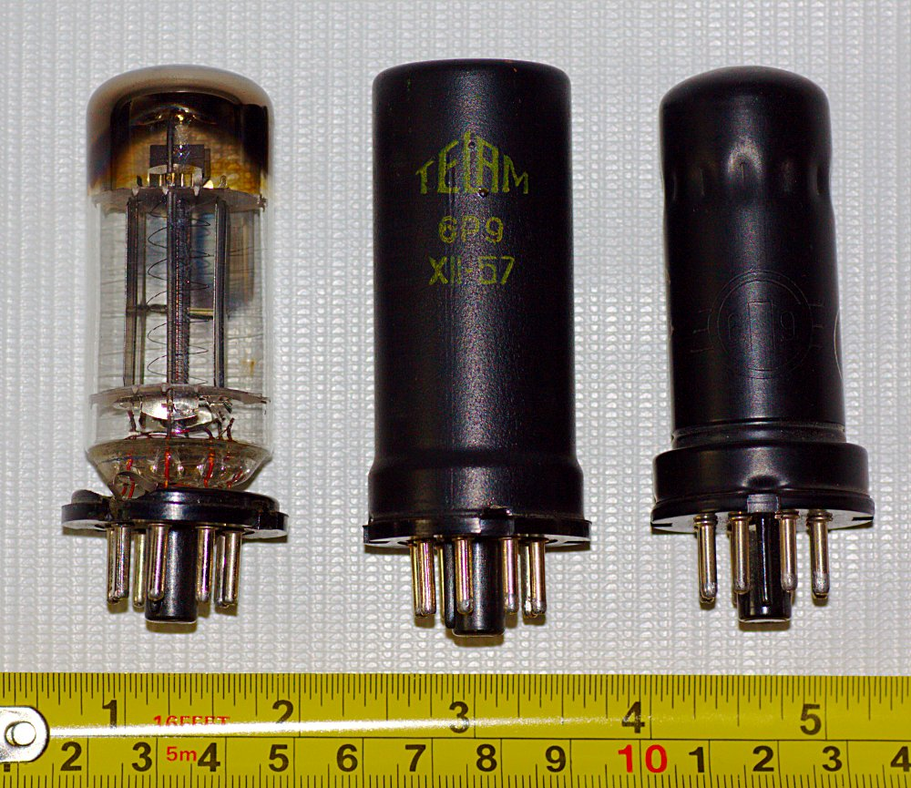 Wide band pentodes 6P9 (PL - left & middle, USSR - right)